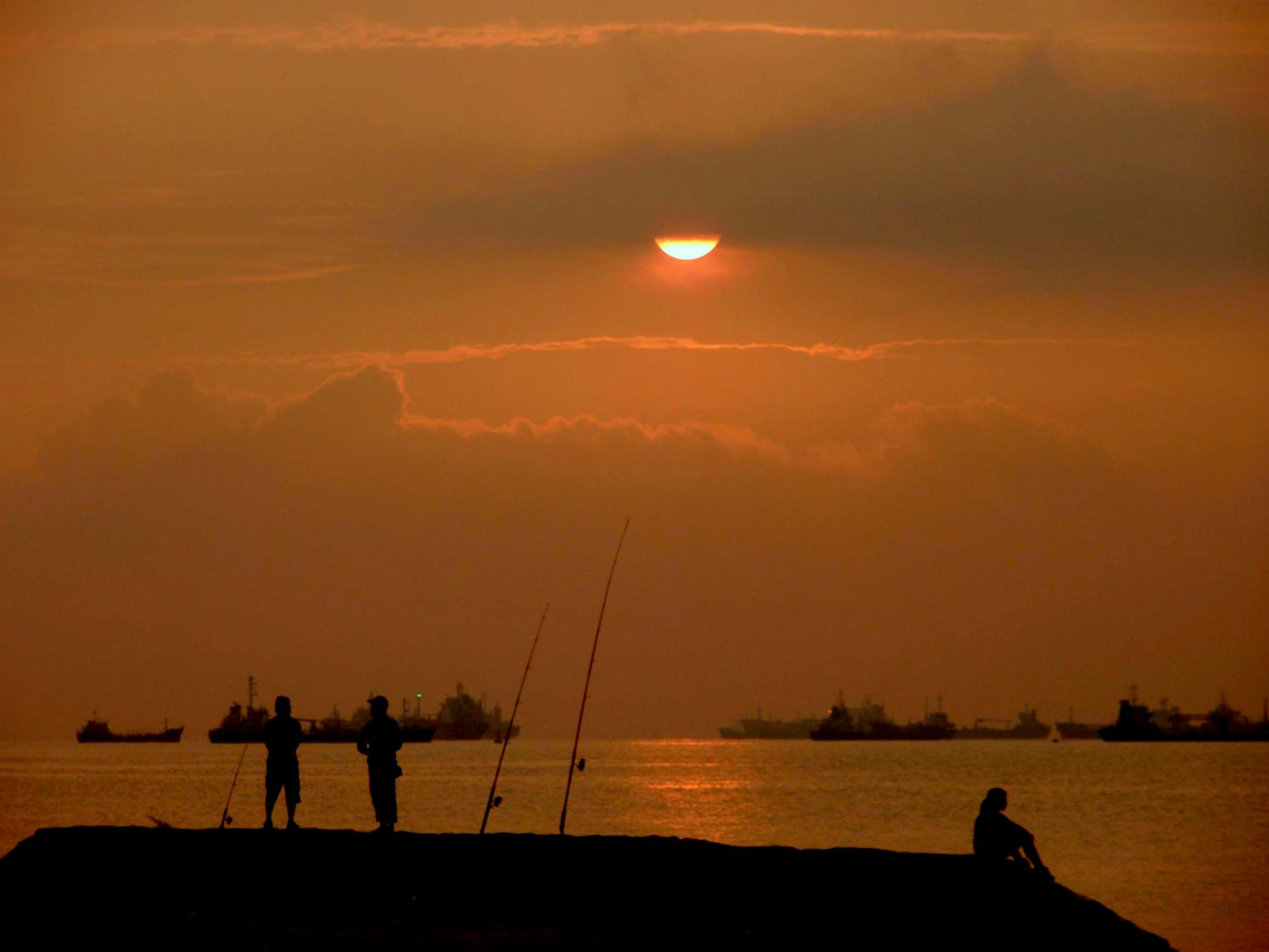 Sunrise at East Coast Park, Singapore. (Photographed using an Olympus μ9000.)